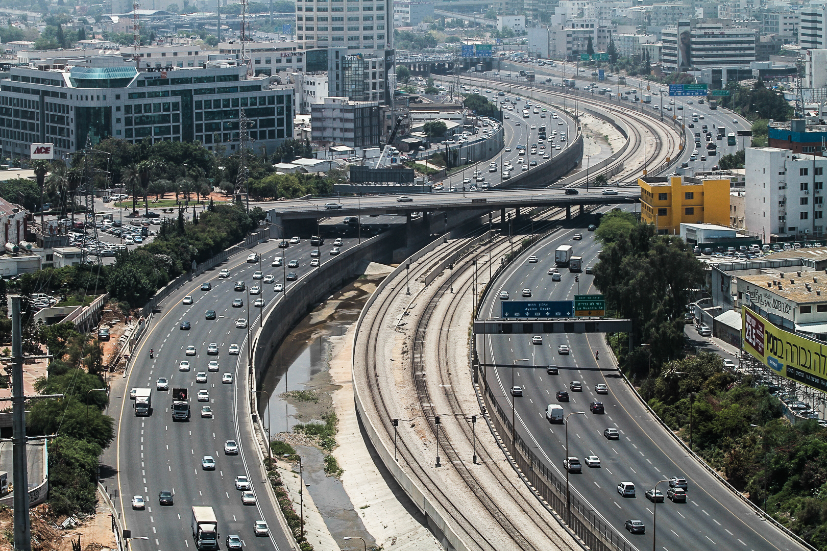 Wikimedia Israel' Hackathon at Campus Tel Aviv Photo: Liran Mimon / Wikimedia Israel